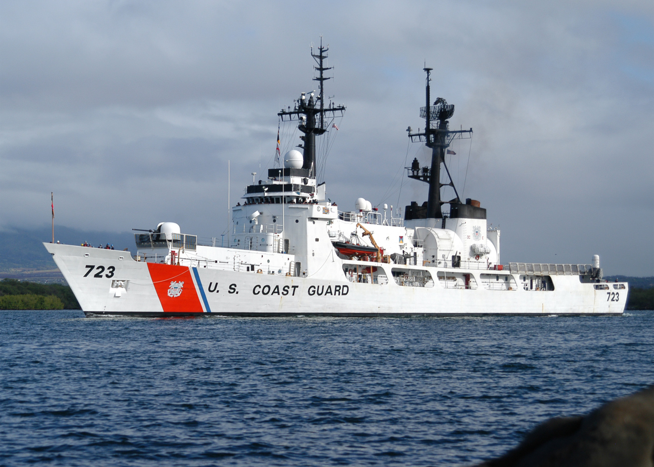 PEARL HARBOR (July 7, 2010) The U.S. Coast Guard Hamilton-class cutter Rush (WHEC 723) departs Joint Base Pearl Harbor-Hickam to support Rim of the Pacific (RIMPAC) 2010 exercises. RIMPAC is a biennial, multinational exercise designed to strengthen regional partnerships and improve multinational interoperability. (U.S. Navy photo by Mass Communication Specialist 1st Class Jason Swink/Released)